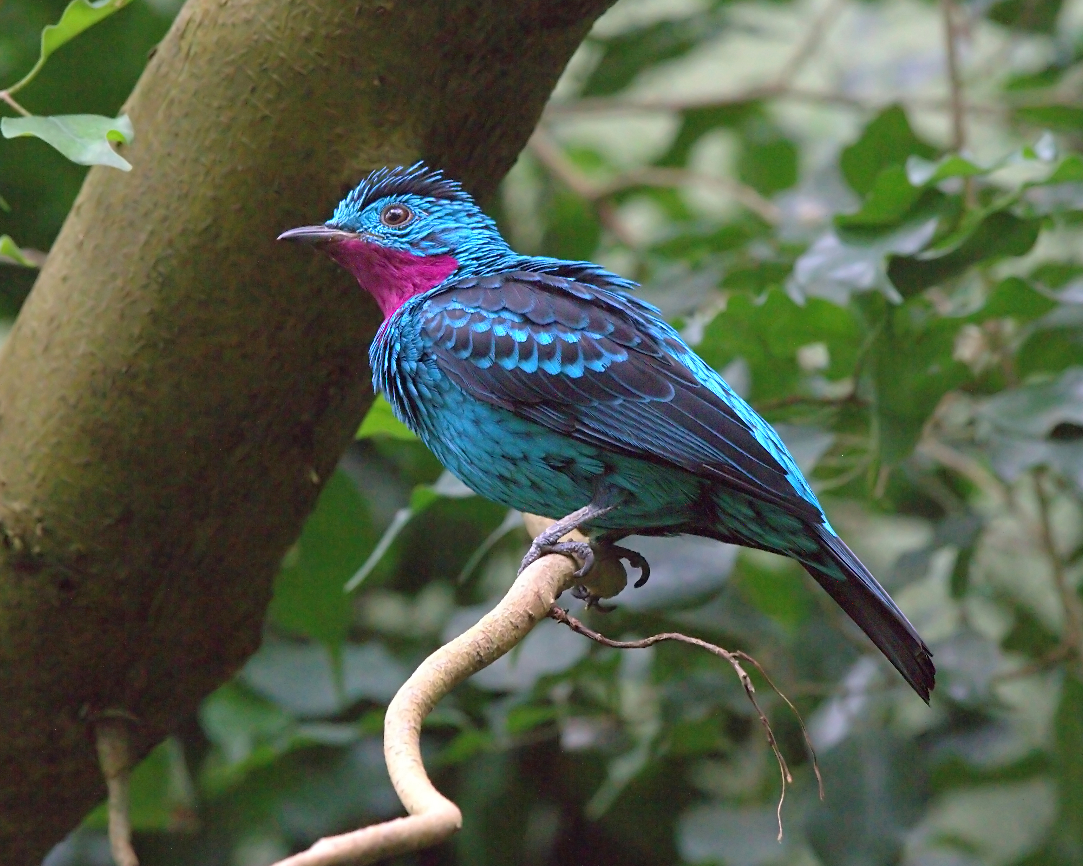 Spangled Cotinga at the Cincinnati Zoo